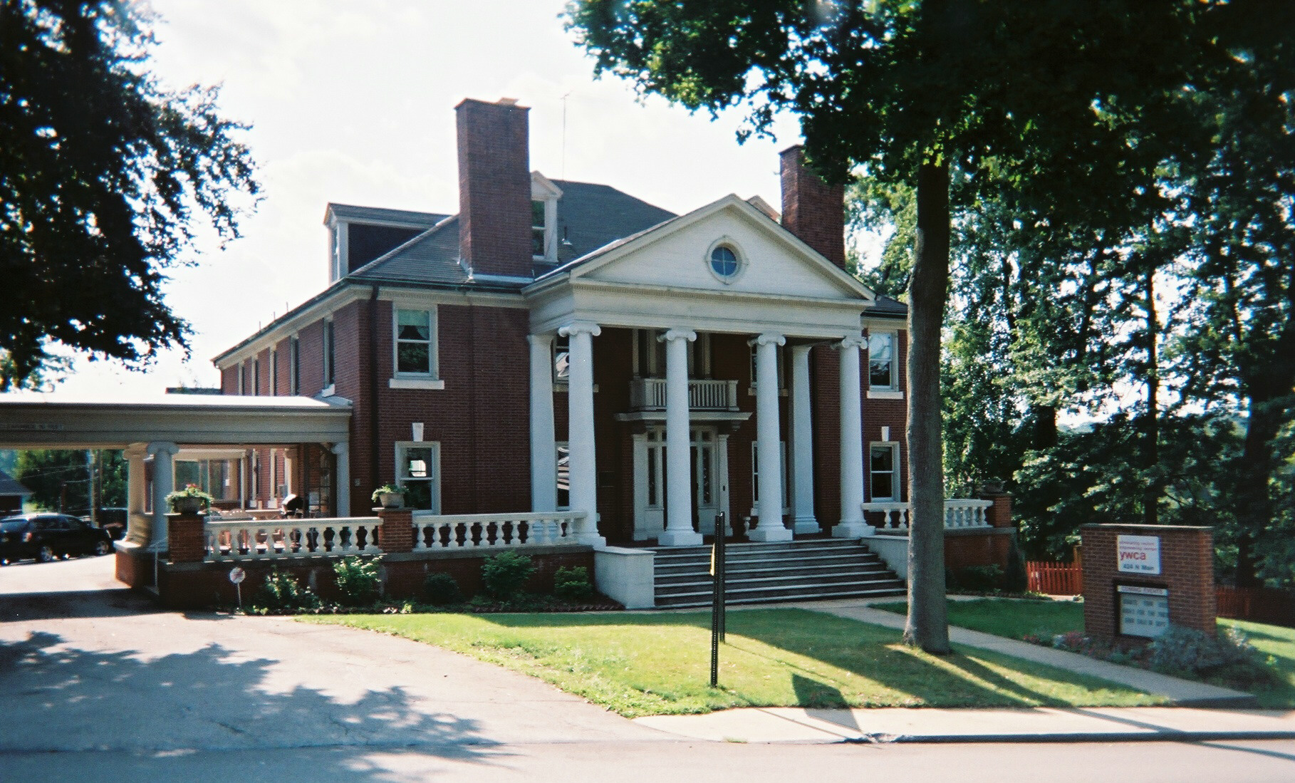 Huff Mansion / YWCA, 424 North Main Street (corner of O'Hara Street), Greensburg, Pennsylvania. Built: 1900. Architect: Ralph Adams Cram.